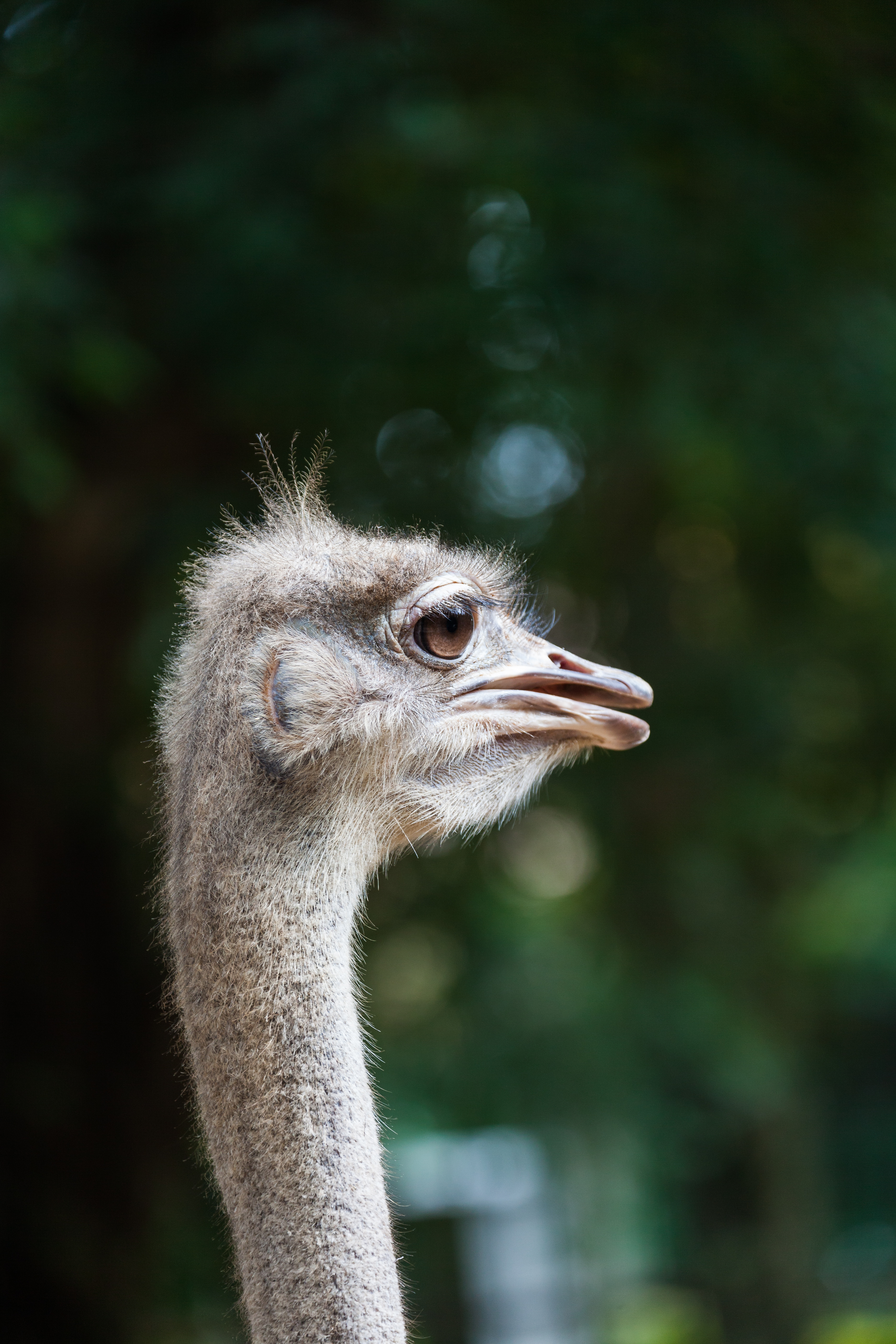 Ostrich (Struthio camelus), Ho Chi Minh City Zoo, Vietnam